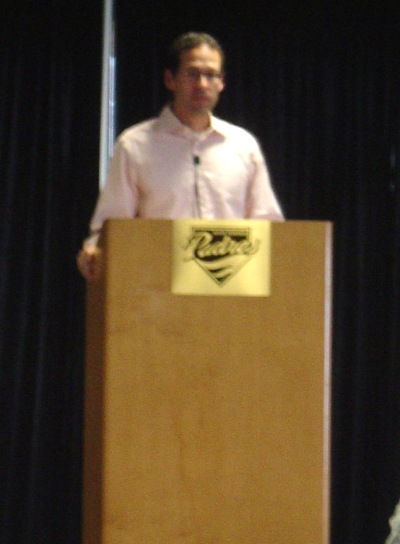 San Diego Padres' special assistant for baseball operations Paul DePodesta